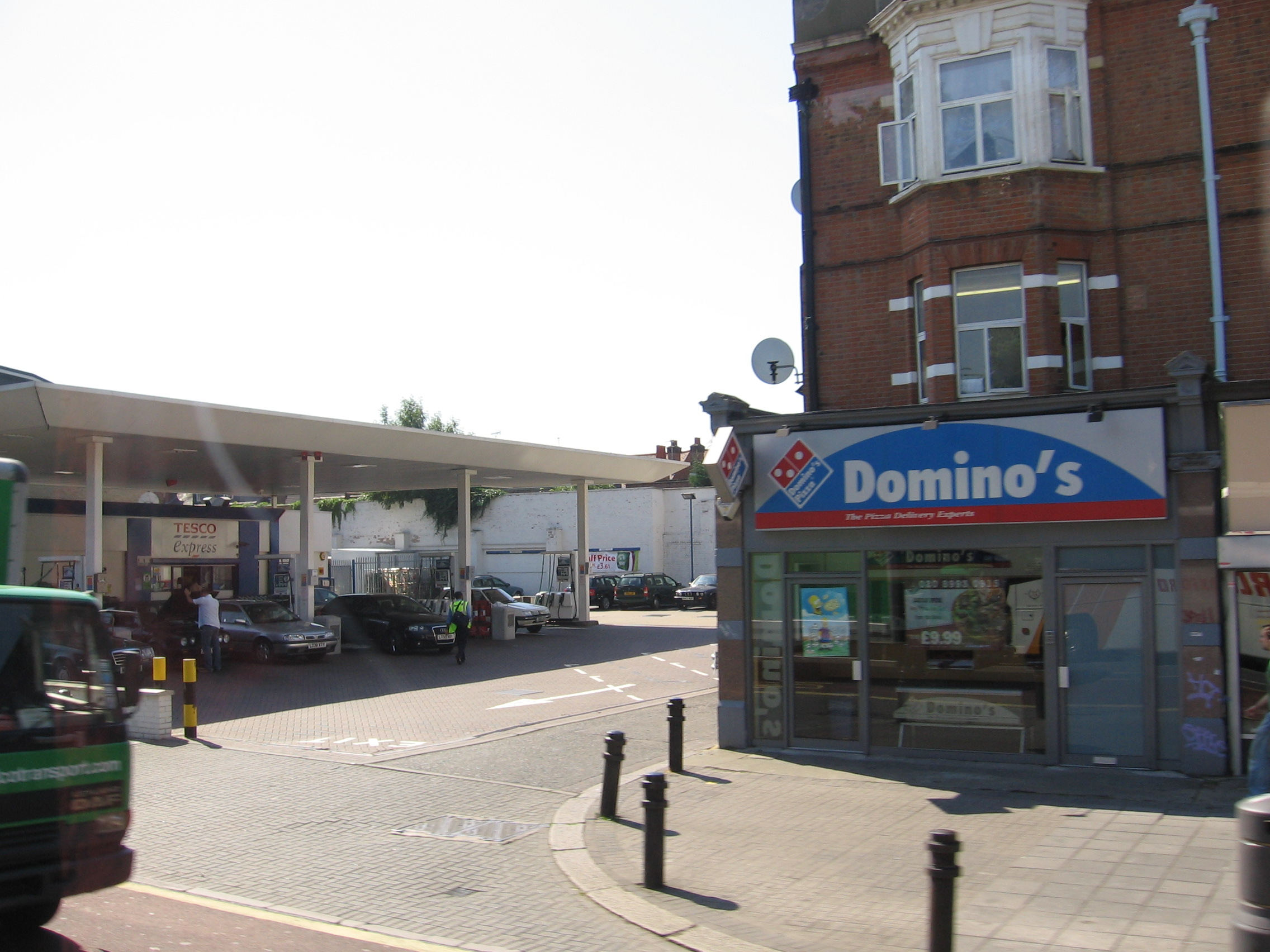 Domino's Pizza, restaurant at 365 Uxbridge Road, Acton London, W3 9RH.